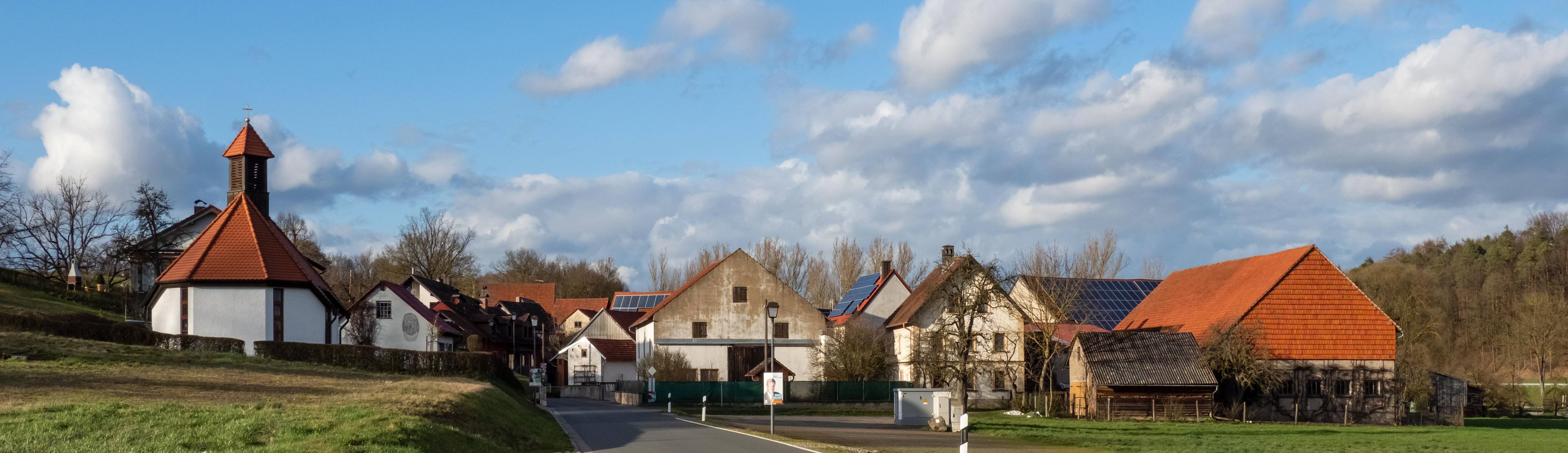 Freudeneck near Rattelsdorf in Itzgrund